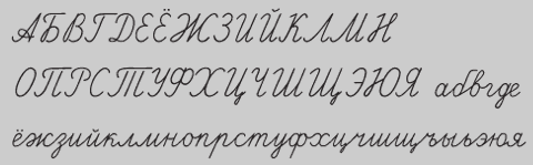 Russian Cursive Cyrillic alphabet.